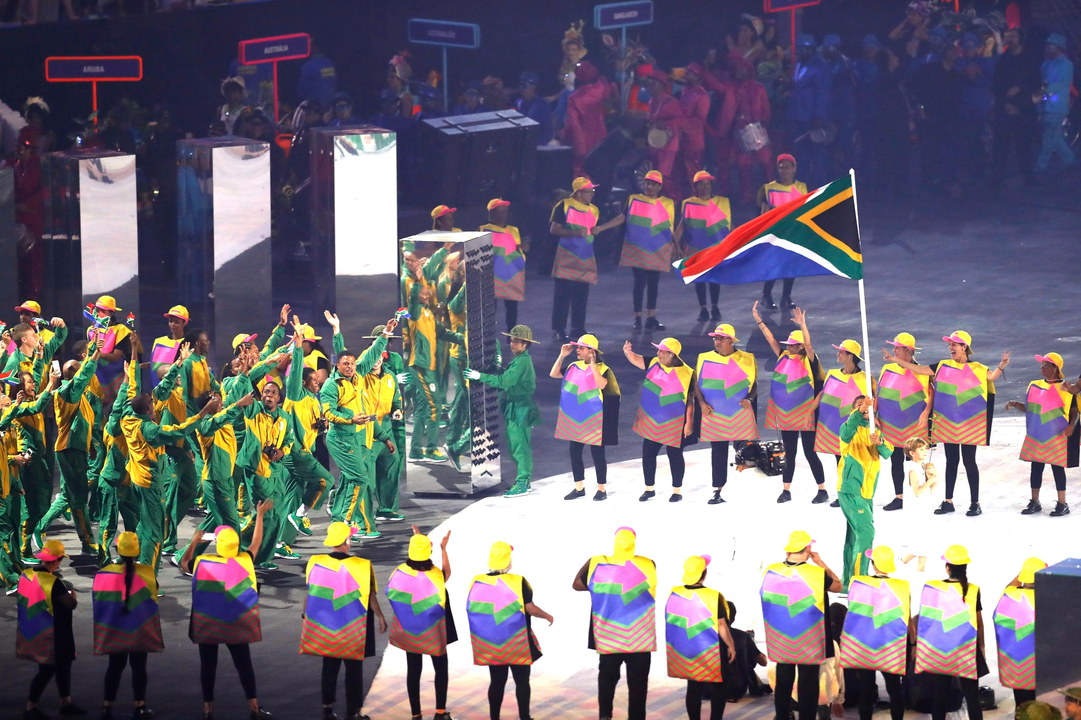 Rio de Janeiro - Cerimônia de abertura dos Jogos Olímpicos Rio 2016 no Estádio do Maracanã. (Fernando Frazão/Agência Brasil)